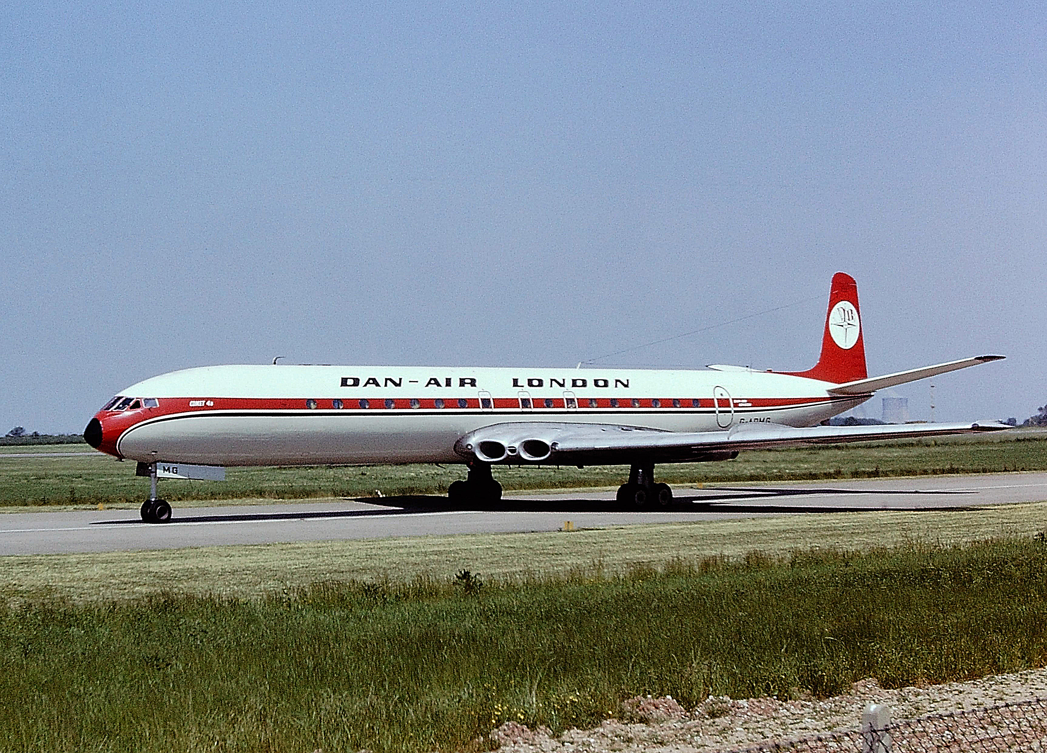 G-APMG DH106 Comet 4B Dan Air East Midlands 08-06-1975